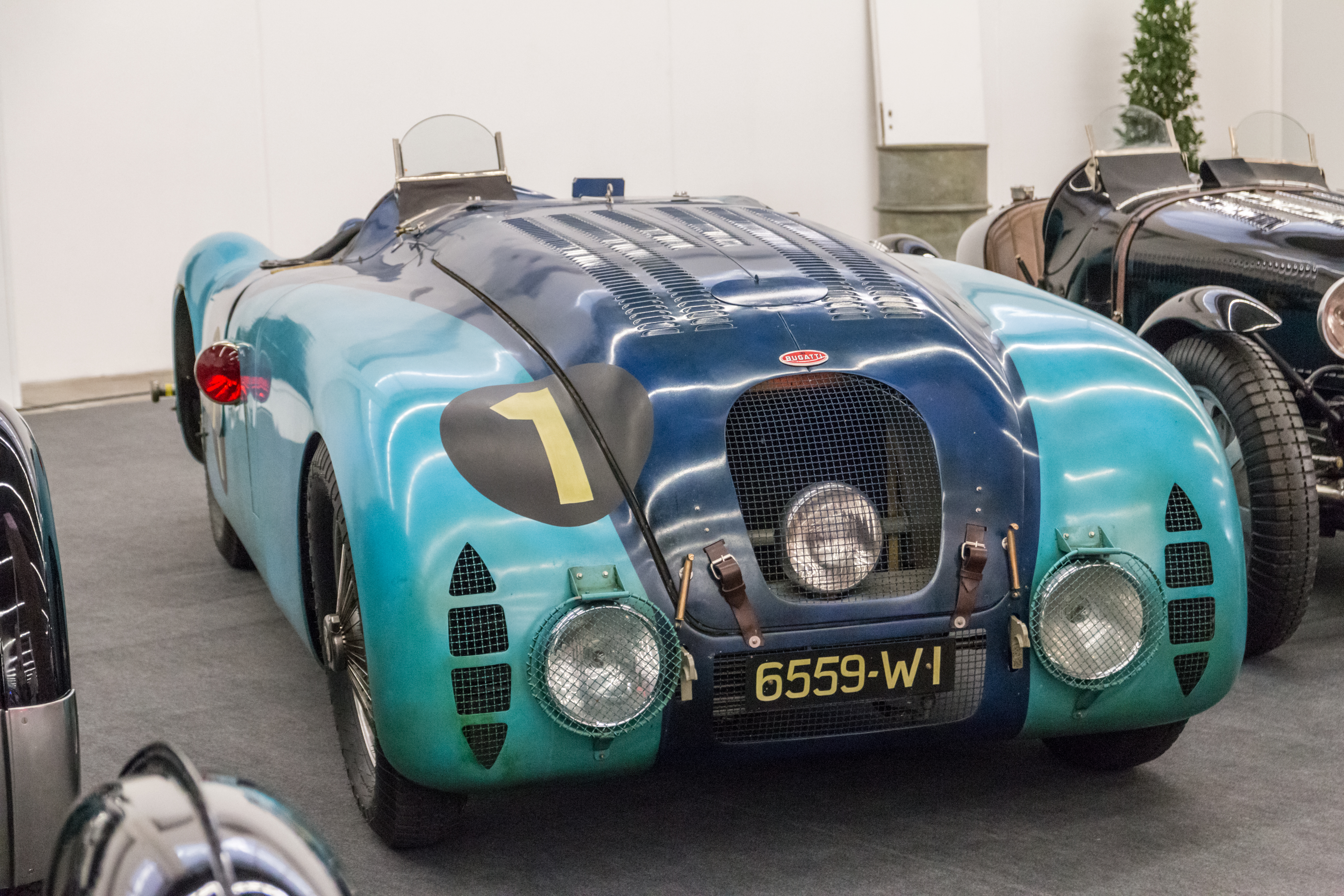 Bugatti Type 57 G